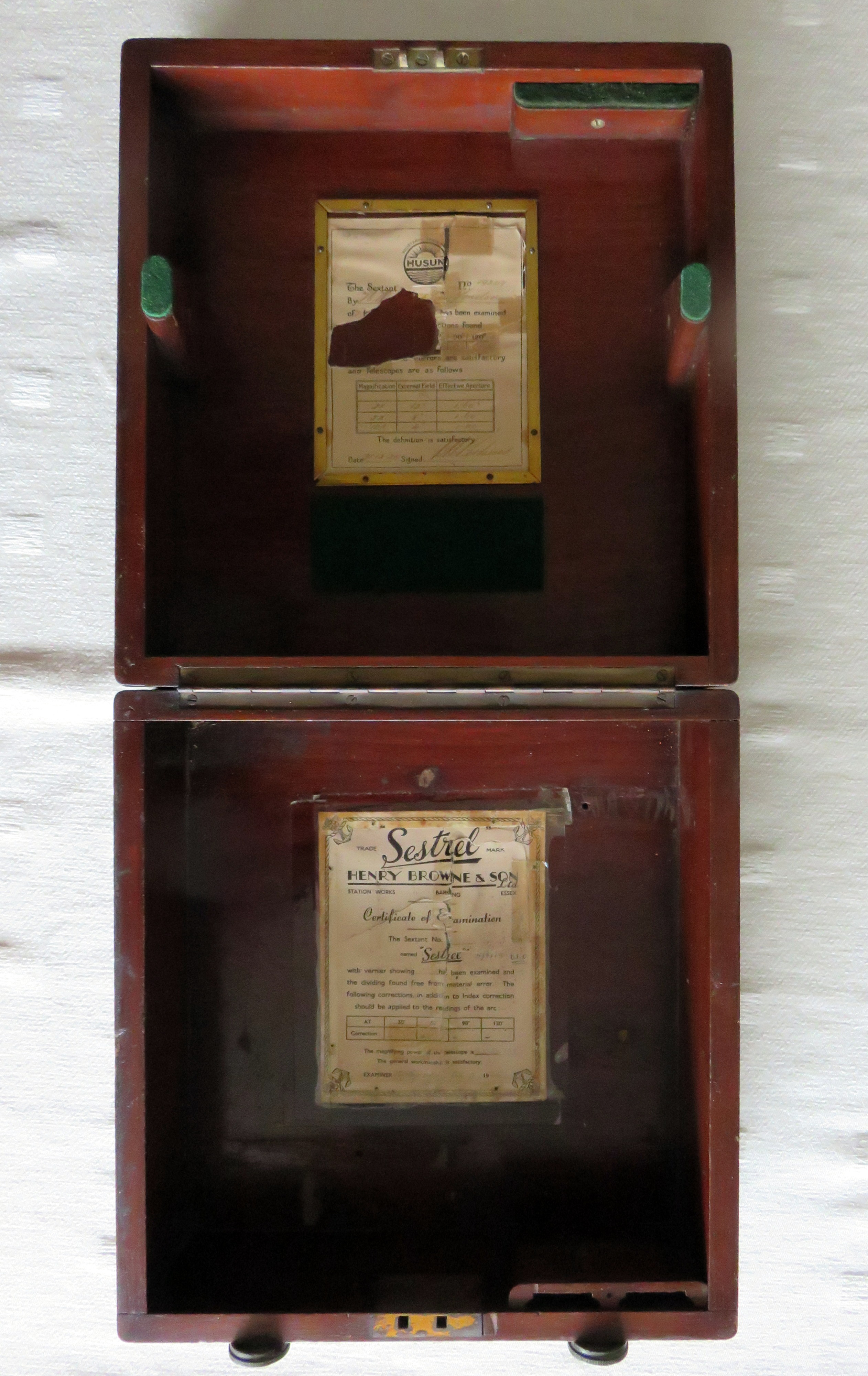 Empty wooden box for Sextant Sestrel, containing signed certificates of 1935 and 1960. Private ownership.